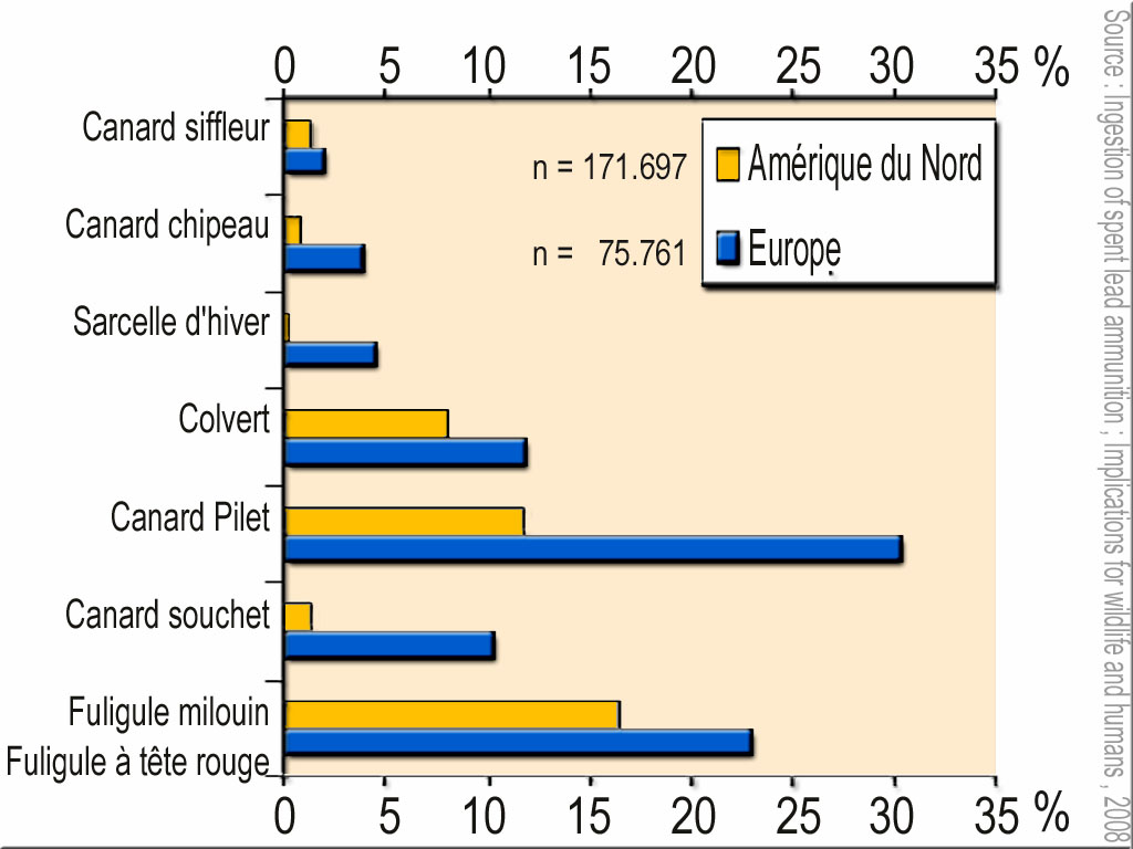 prevalence of lead shot ingestion in waterfowl (Comparison of the prevalence of lead from Europe (n = 75,761) and North America (n = 171,697)